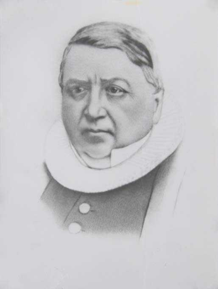 Drawing of the Danish-Norwegian priest Alexander Ove Laurentius Lagaard in Rørstad, Sørfold, Nordland, Norway. Unknown artist. Photograph of the artwork by Lyder Kvantoland from 1968